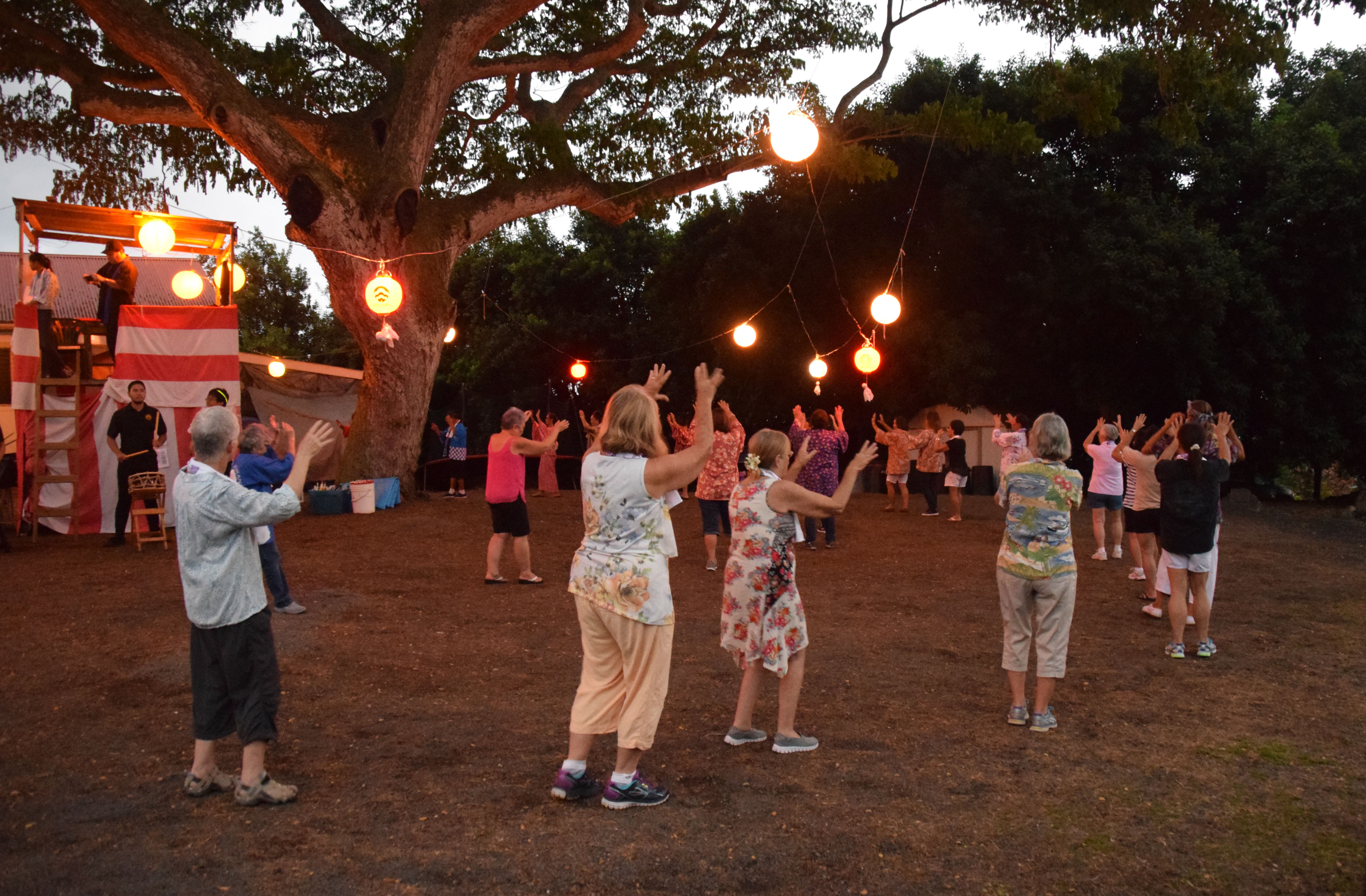 Bon dance in Keei, Island of Hawaii (at Keei Buddhist mission & cemetery), USA